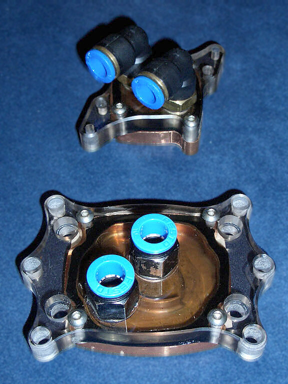 Two heat sinks for watercooled PCs. Front sinks is used for CPUs, the rear one is used for GPUs